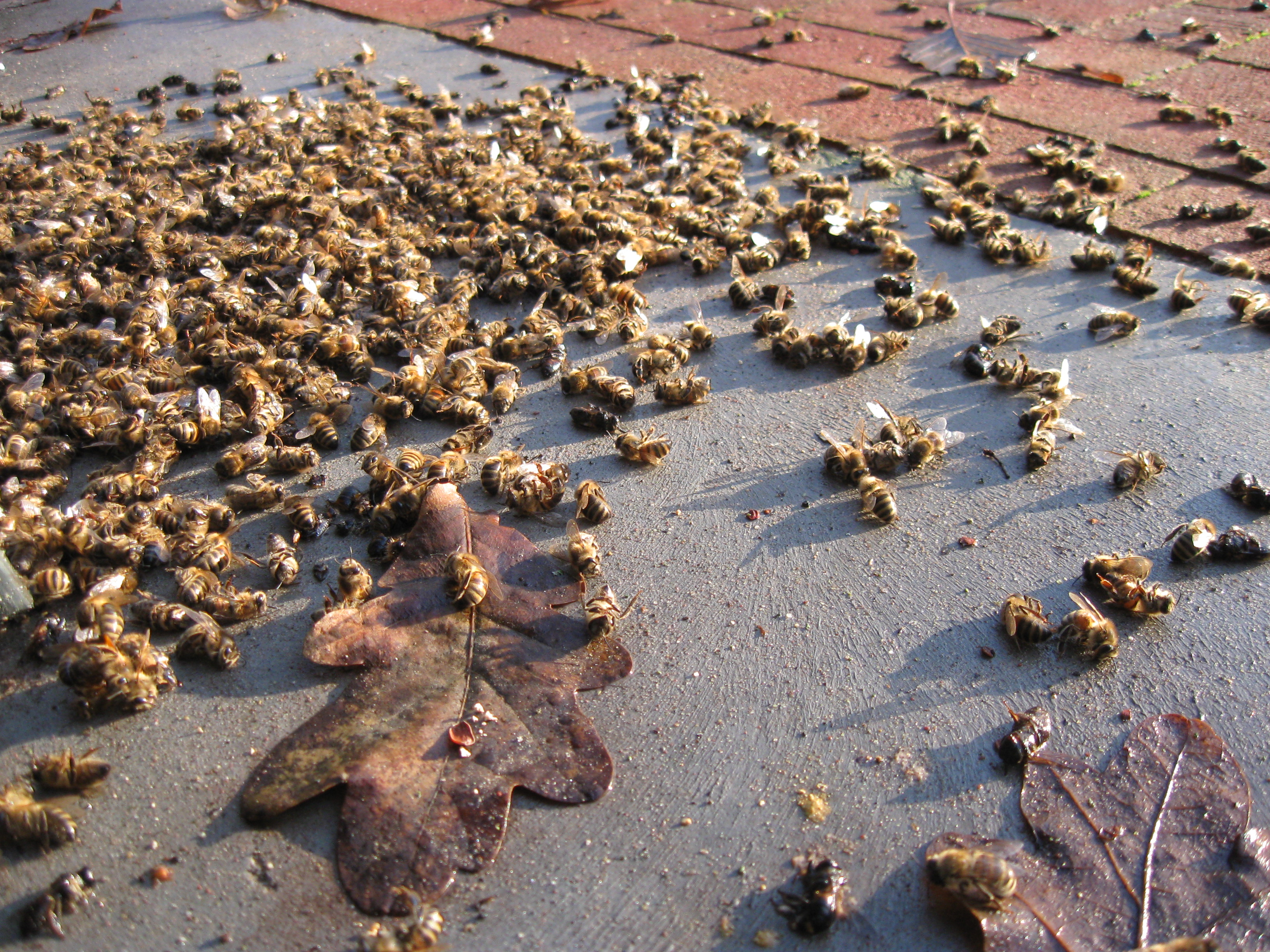 Dead honeybees in front of a beehive.